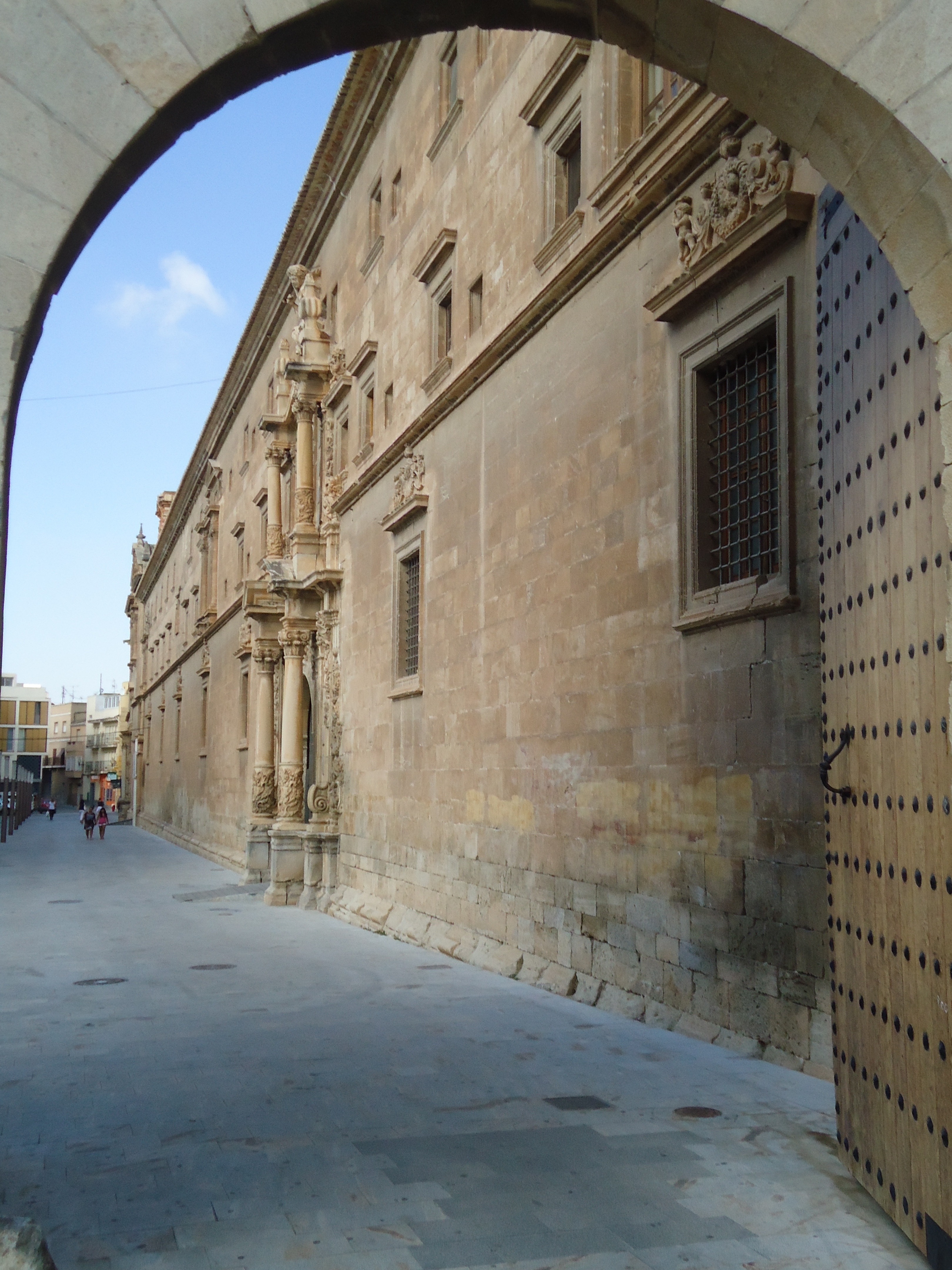 Colegi de Santo Domingo, Oriola